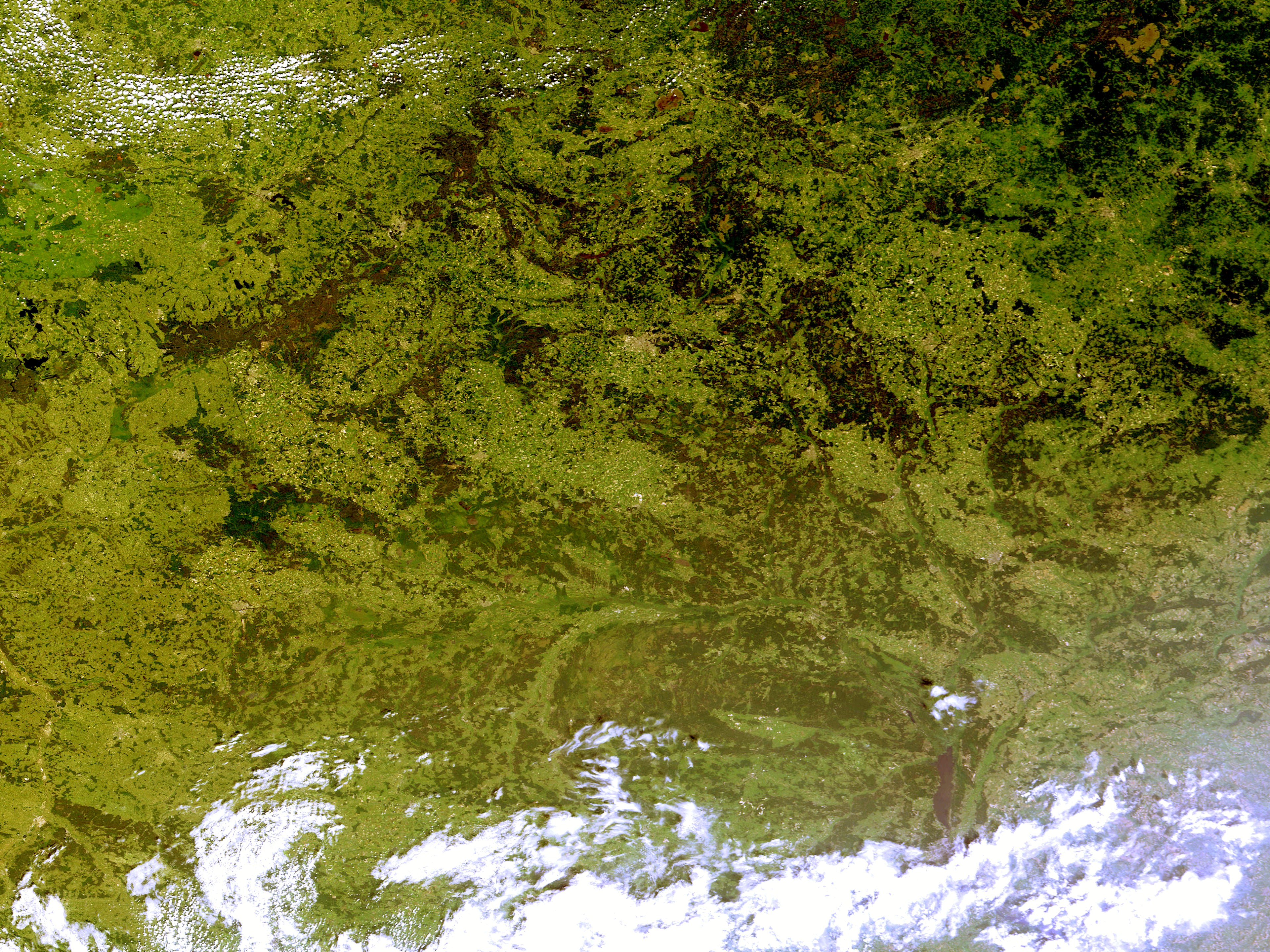 Belarus satellite image by MODIS Terra, true color, 2010-06-29, resolution 250 m